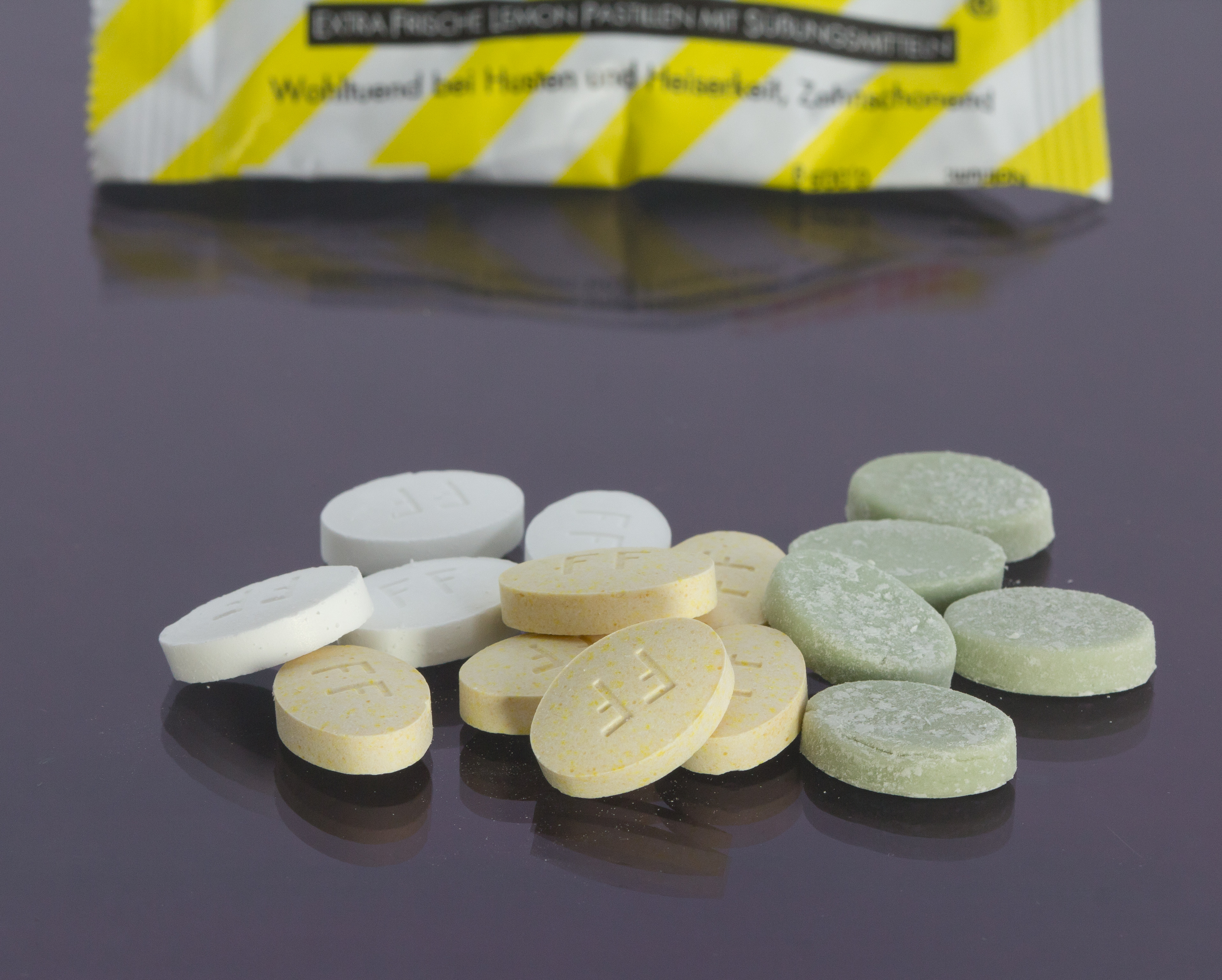 Fisherman's Friend assortiment